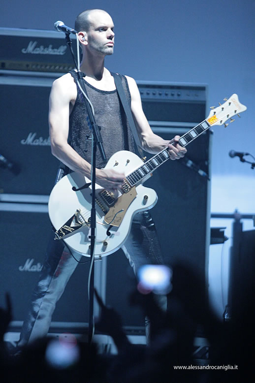 Stefan Olsdal playing with Placebo in Bologna 29/11/09